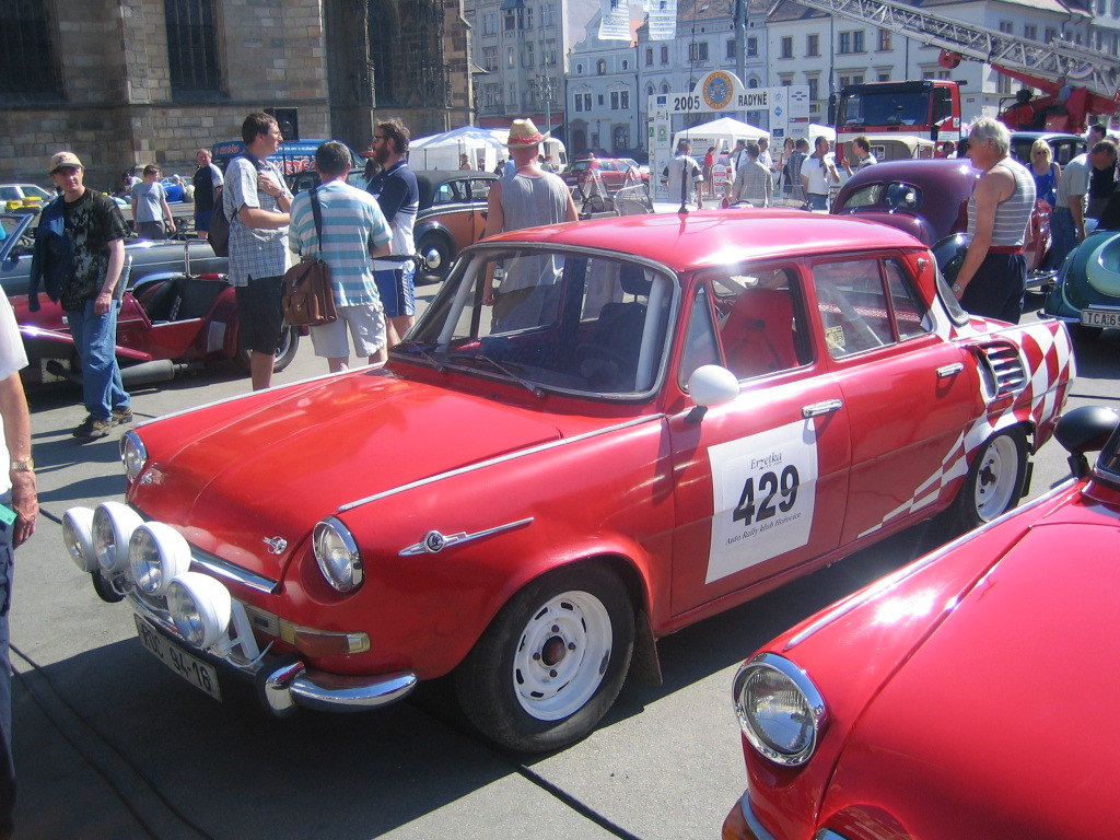 Škoda 1000 MB Rally